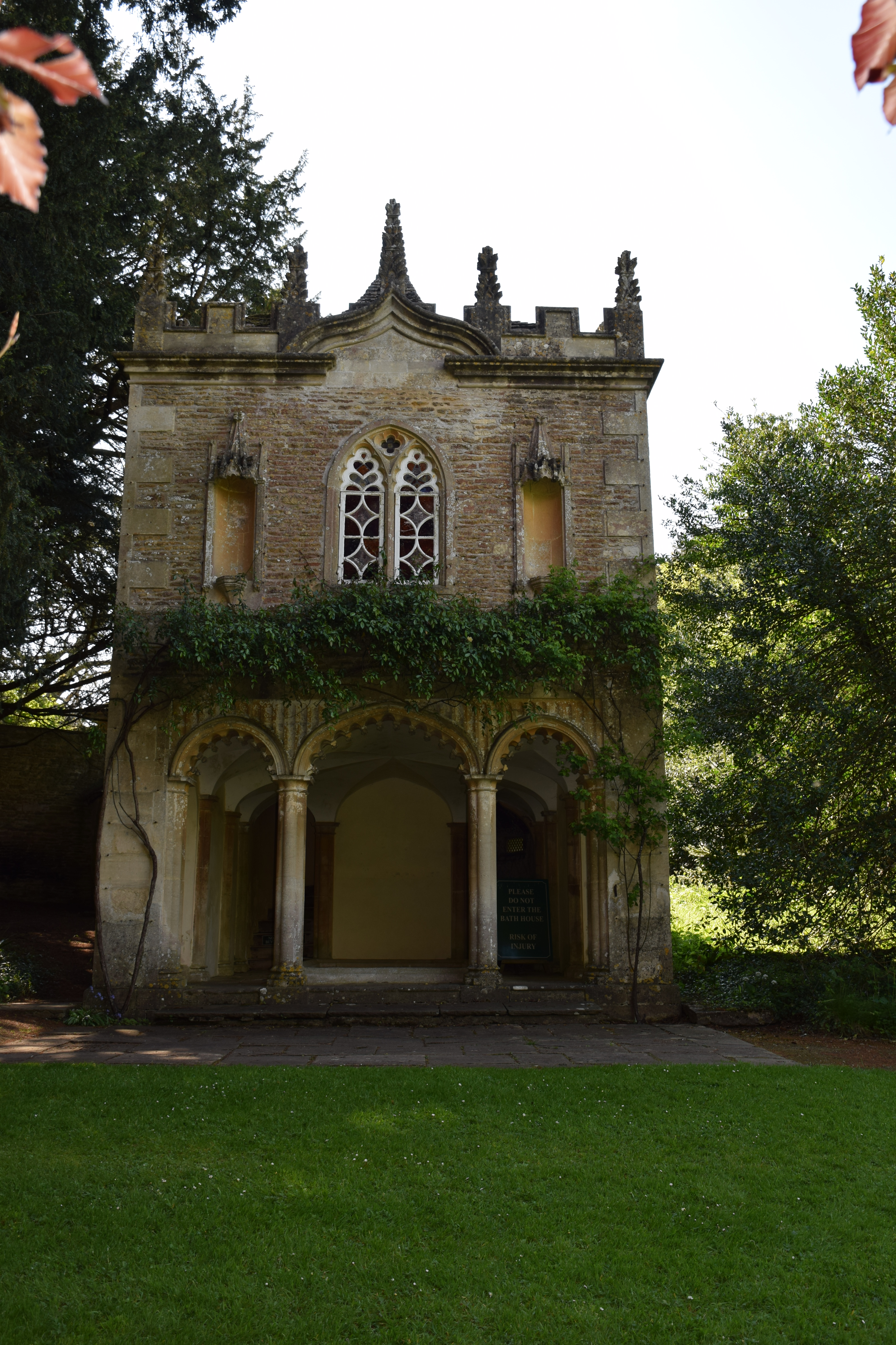 Corsham Court, Wiltshire, 5 May 2018. It originated as a Saxon Royal Manor of Ethelred the Unready. Both Catherine of Aragon and Catherine Parr were presented with the manor by Henry VIII. In 1745 the house was bought by Paul Methuen and it remains in that family. The present house was built in 1582 by John Smyth, remodelled in 1761-64 by Capability Brown (who also laid out the surrounding parkland), again in 1796 by John Nash and rebuilt in 1808 and remodelled yet again in 1844-49 by Thomas Bellamy. The House is currently the seat of the 8th Baron Methuen. Pictured is The Bath House in the garden.